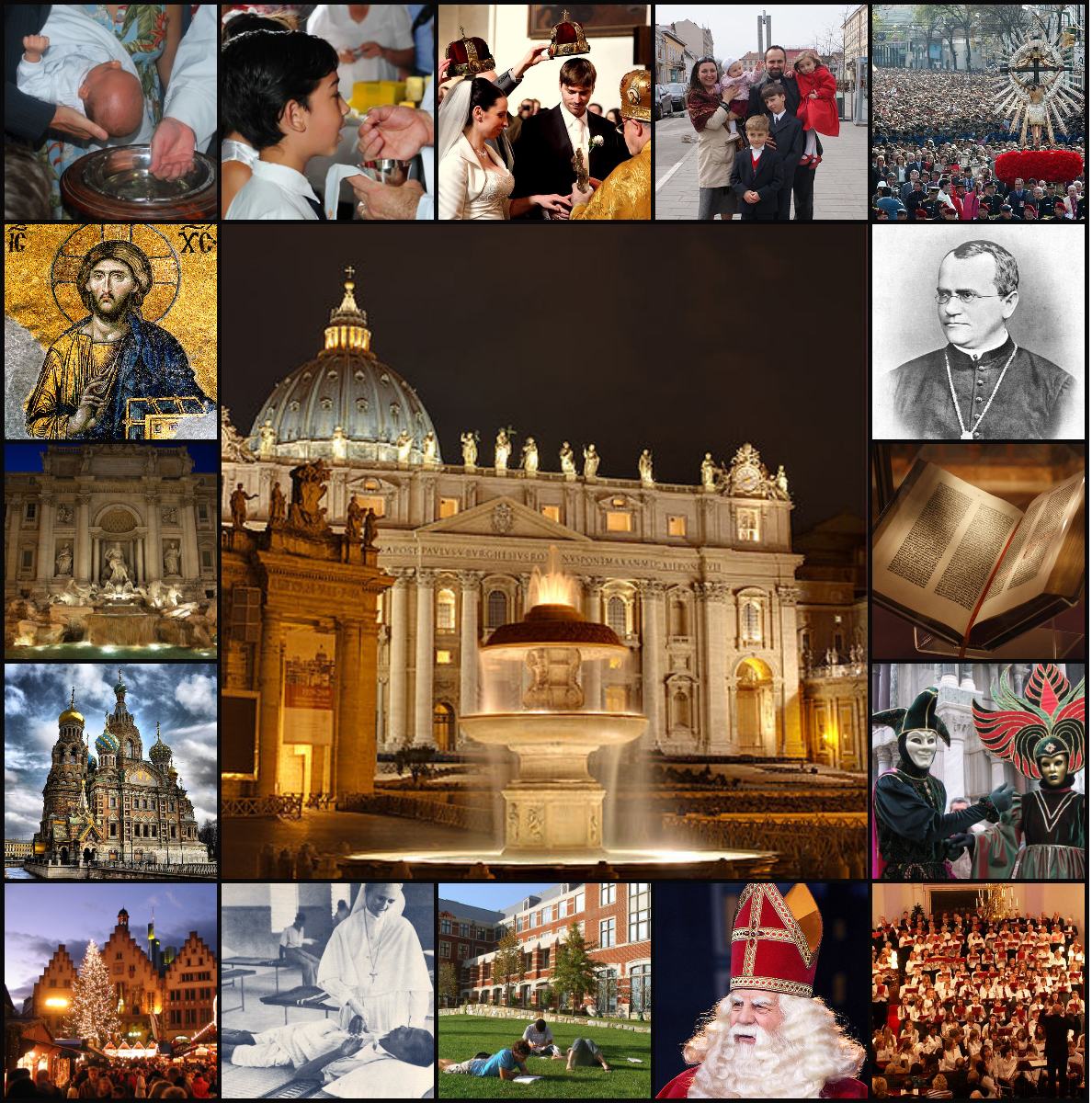 Christian Civilization التأثير الحضاري للمسيحية.